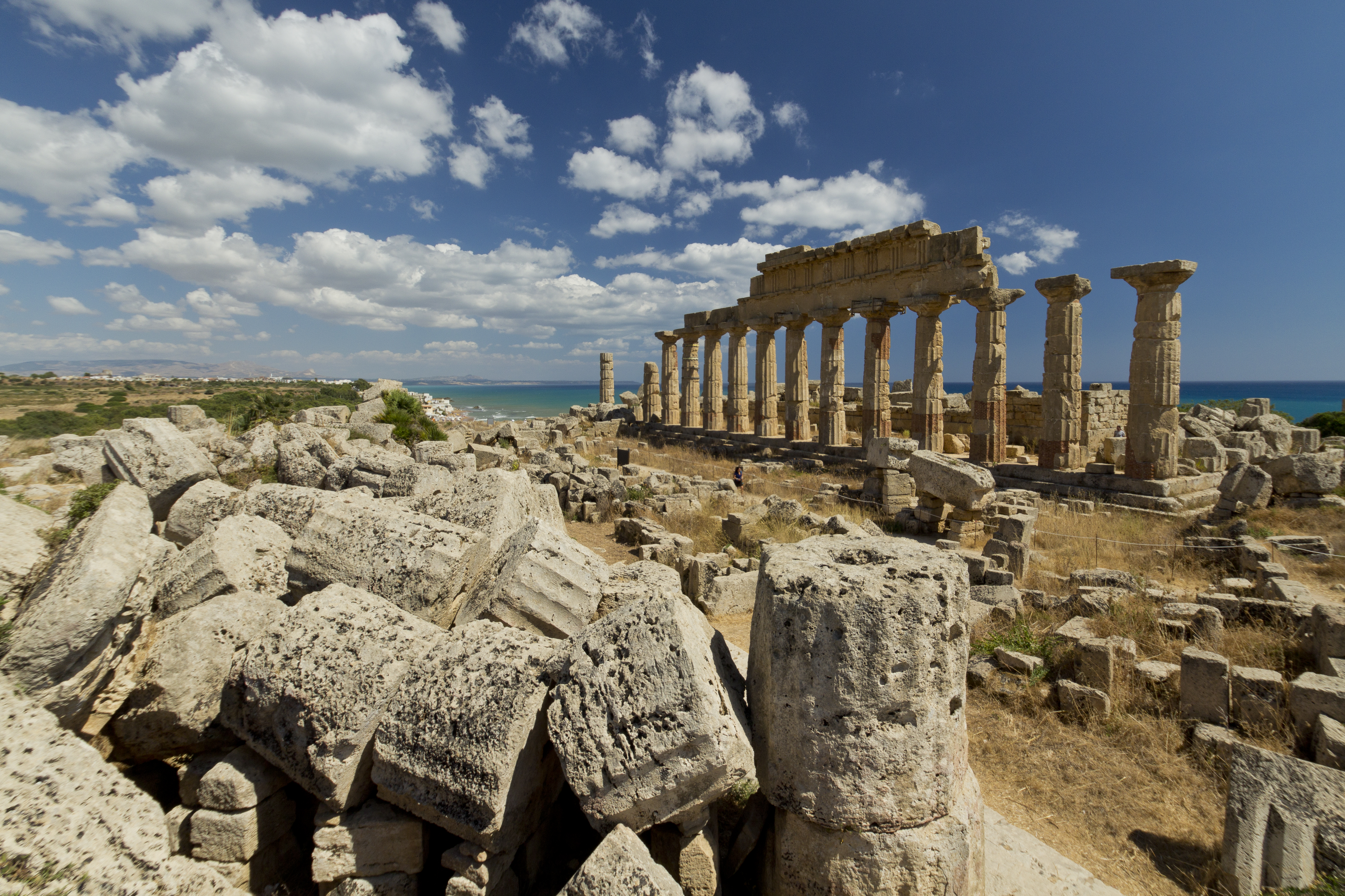 Temple D in the foreground and Temple C in the background.